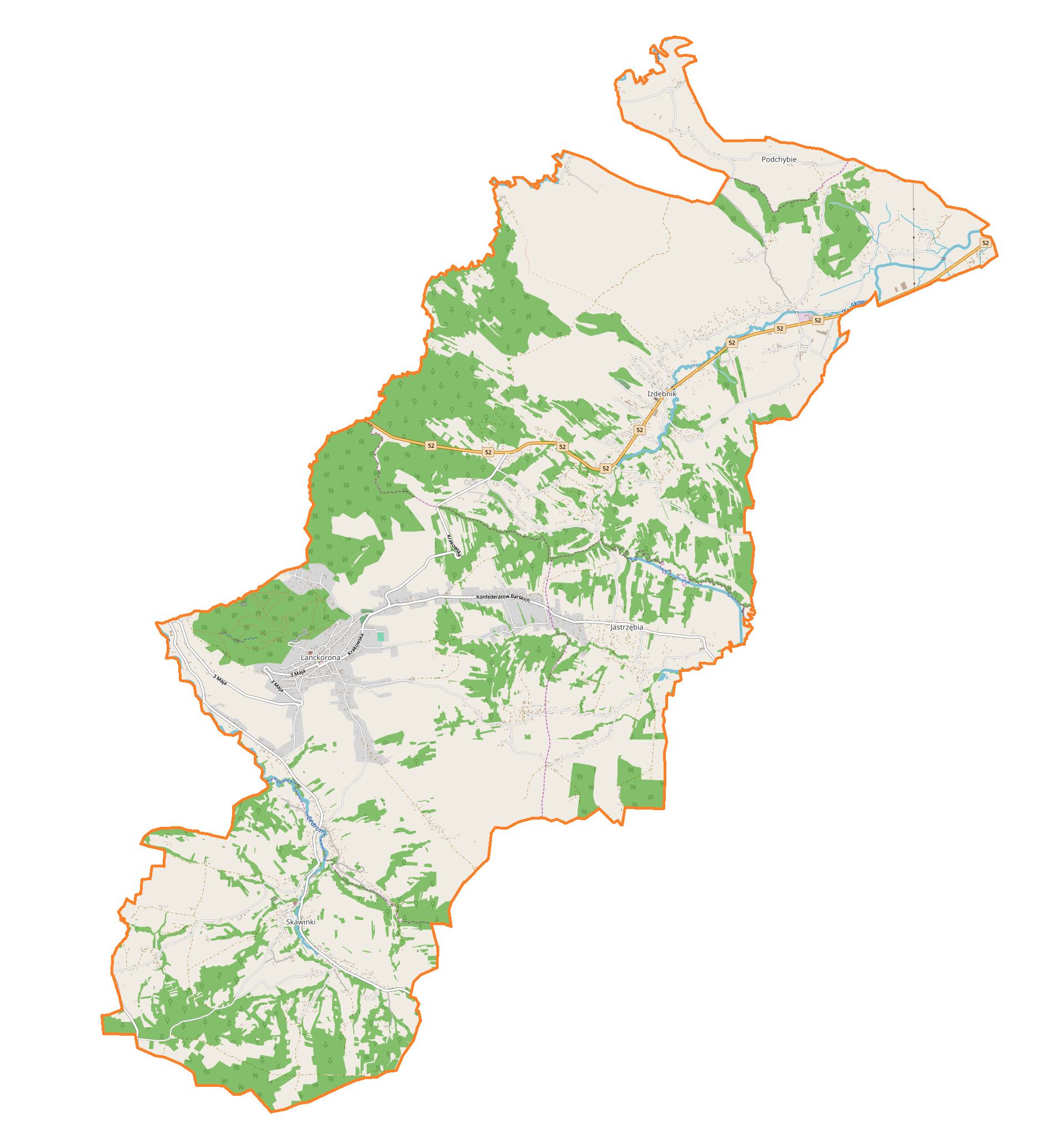 Location map